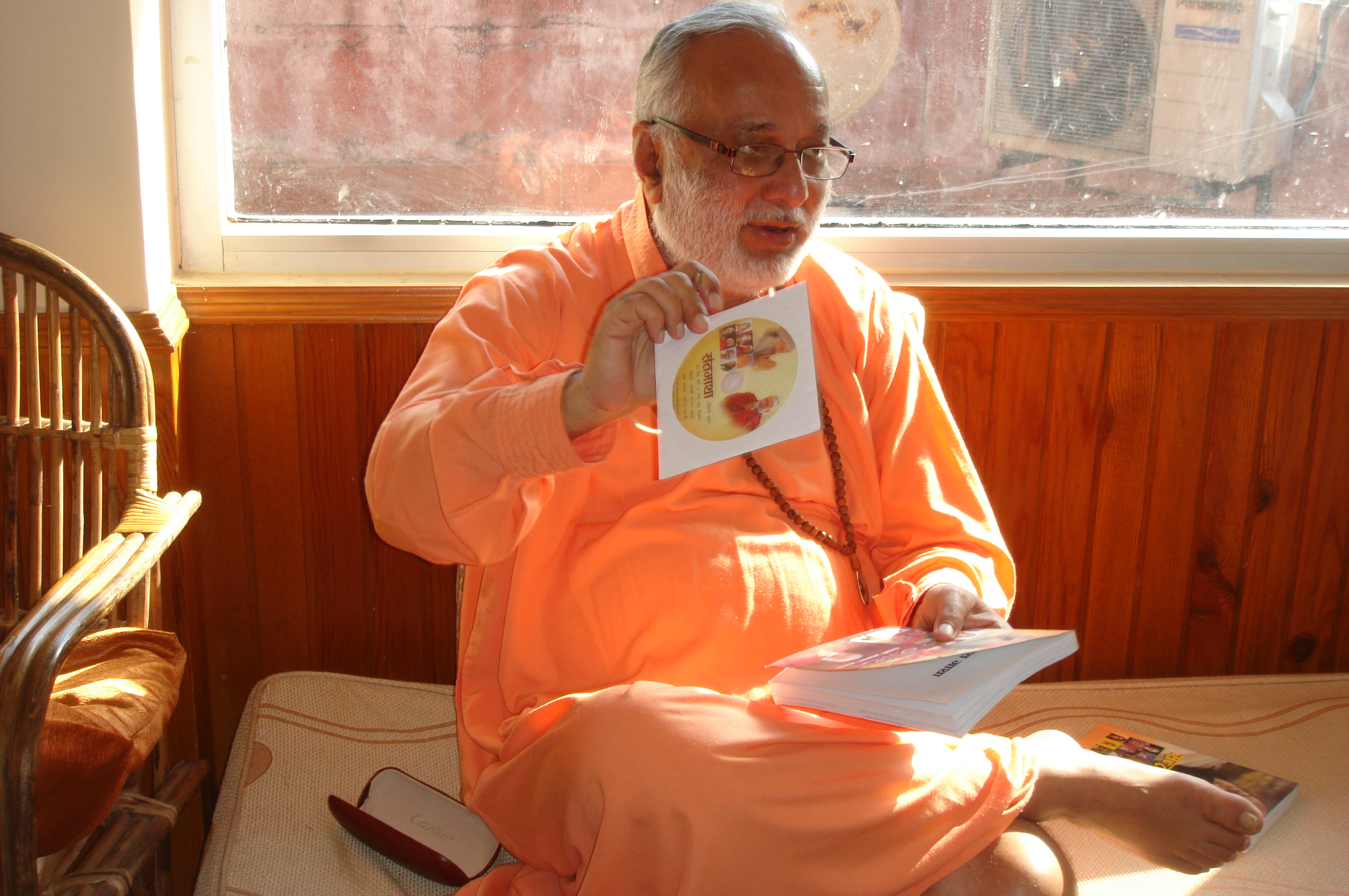 Swami Anand Arun at Osho Tapoban.